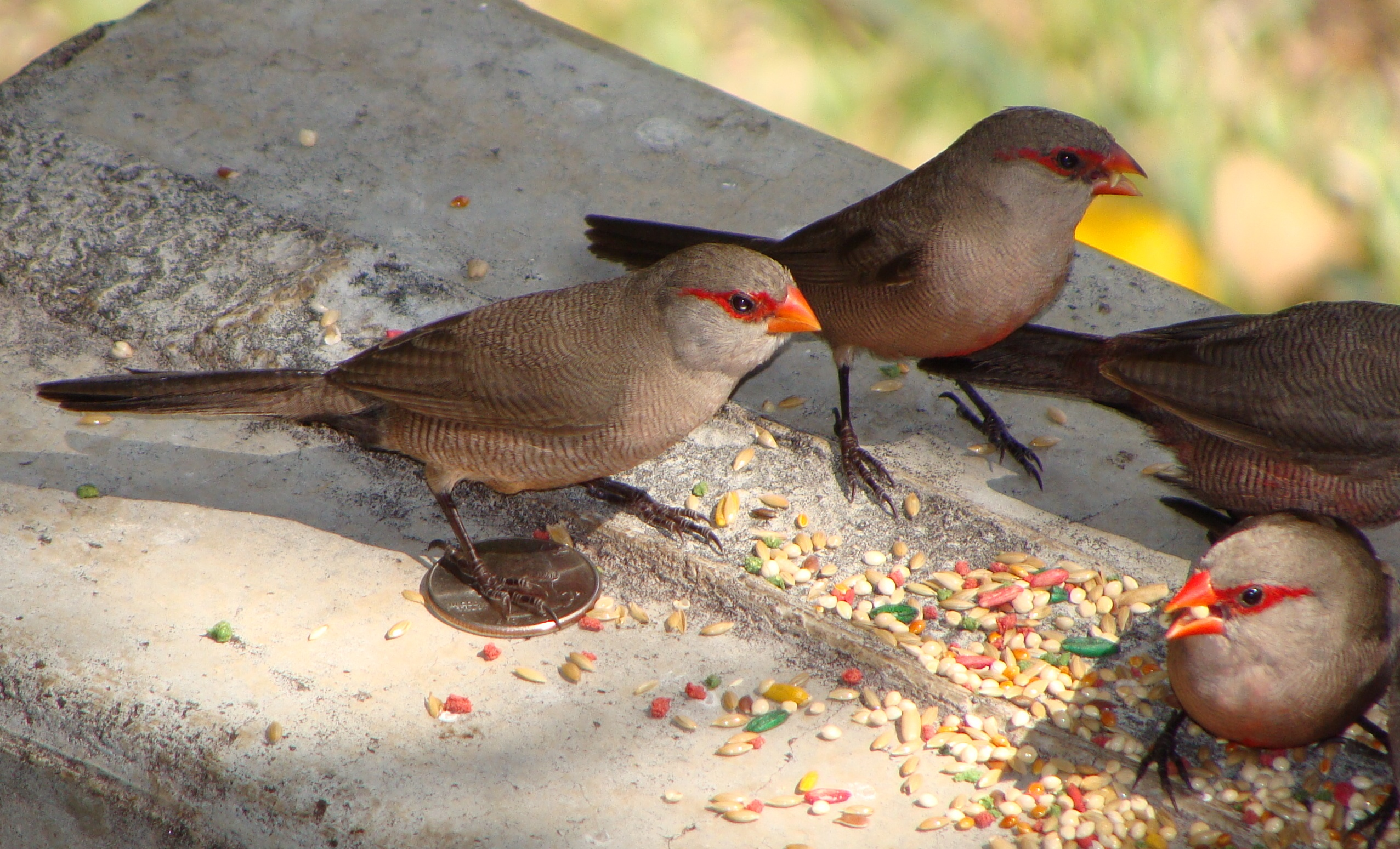 Waxbill on coin, Ascension Island